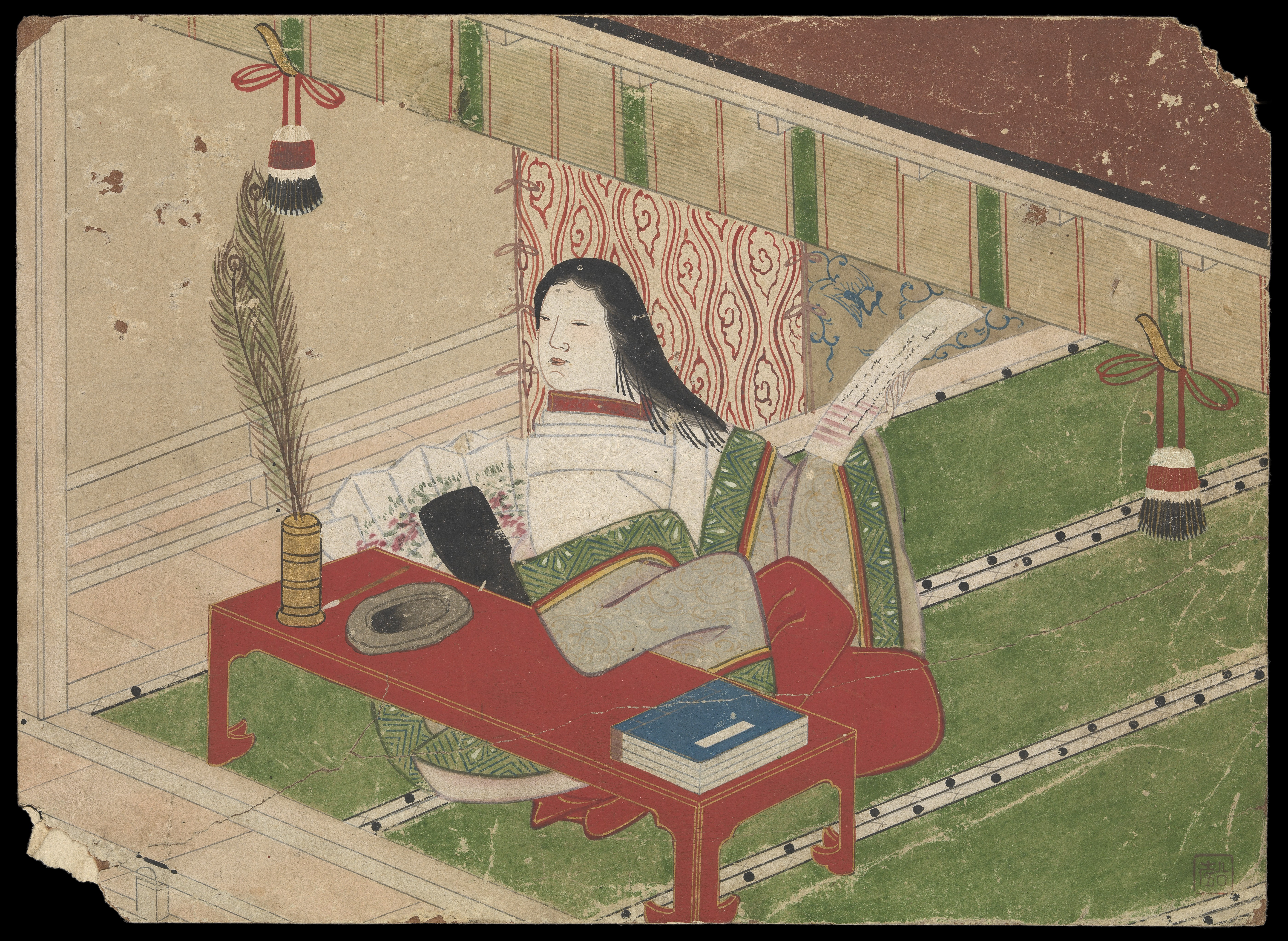 Kusozu: the death of a noble lady and the decay of her body. First in a series of 9 watercolour paintings. In the first painting a court lady in a kimono is seated indoors at a low red table, with a scroll in her left hand, upon which she has written her farewell poem: she is pallid, and her expression is preoccupied. Iconographic Collections Keywords: Komachi Ono